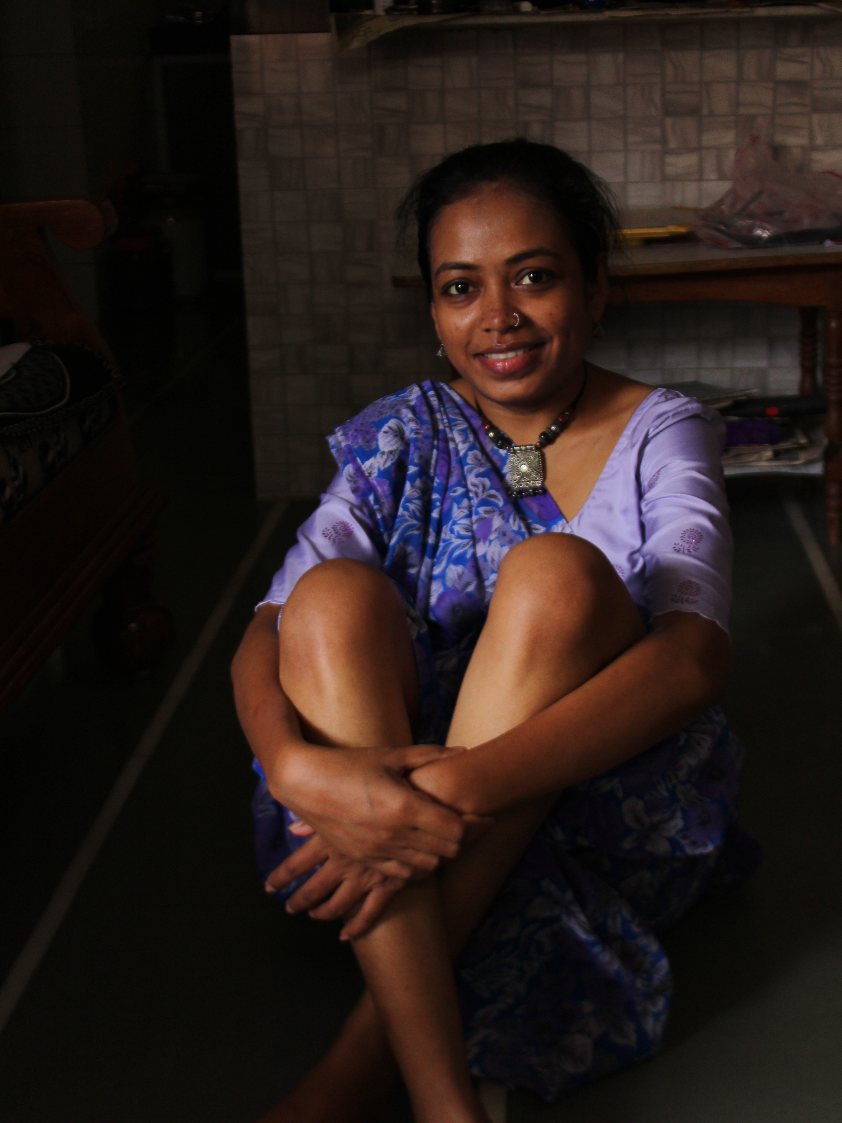 Dhodia Female wearing Kachhedo / Dhadku